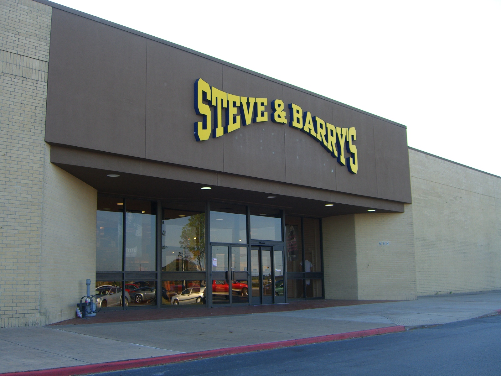 The sole Steve & Barry's exterior entrance. Former Mervyns anchor space.